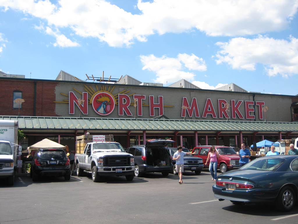 North Market, Short North, Columbus OH